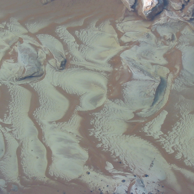 Cleyey mud deposited at the bottom of the watercourse